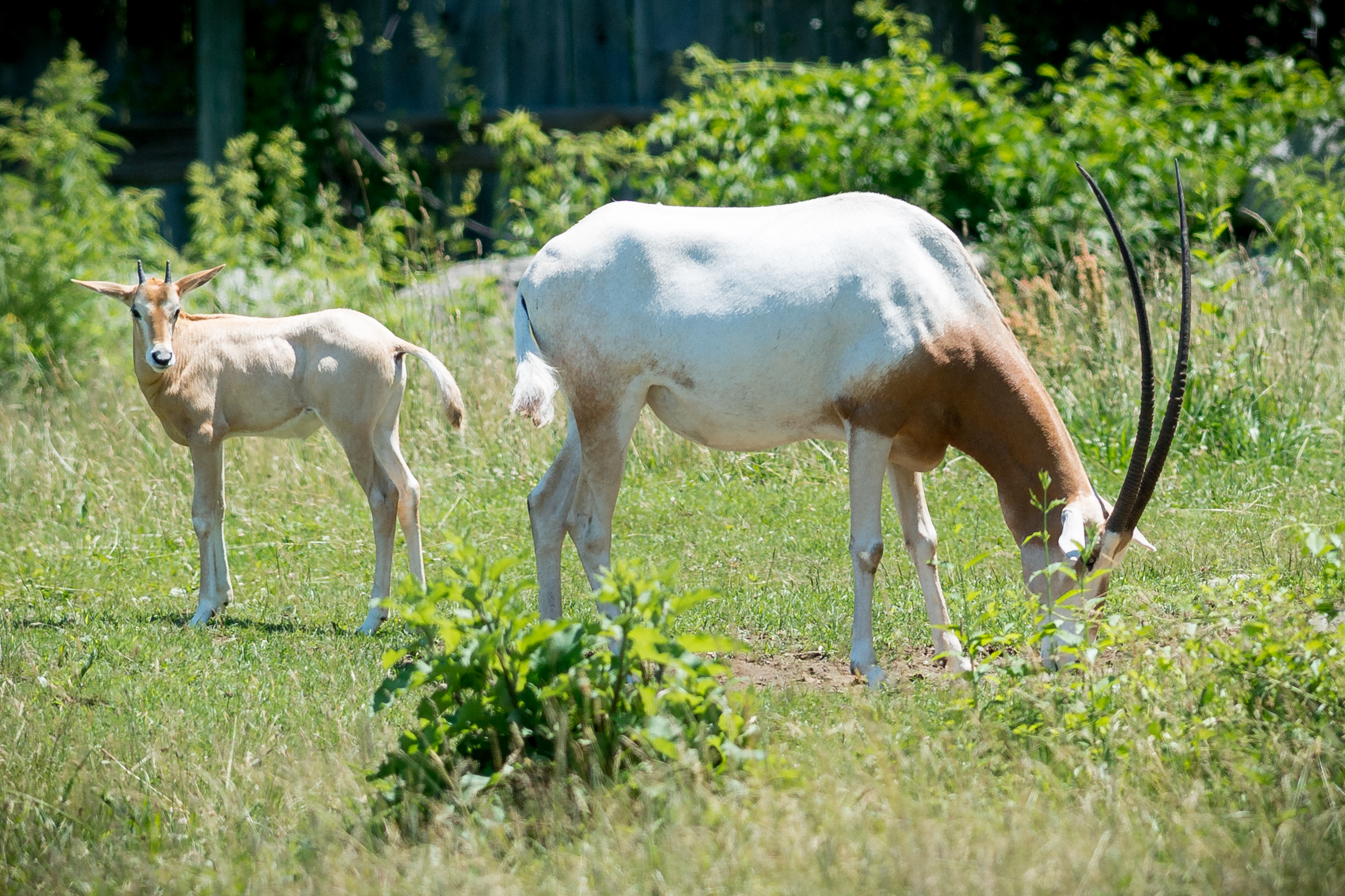 Fairly heavy crop, as they were quite far away, but I still think the angle was ok.